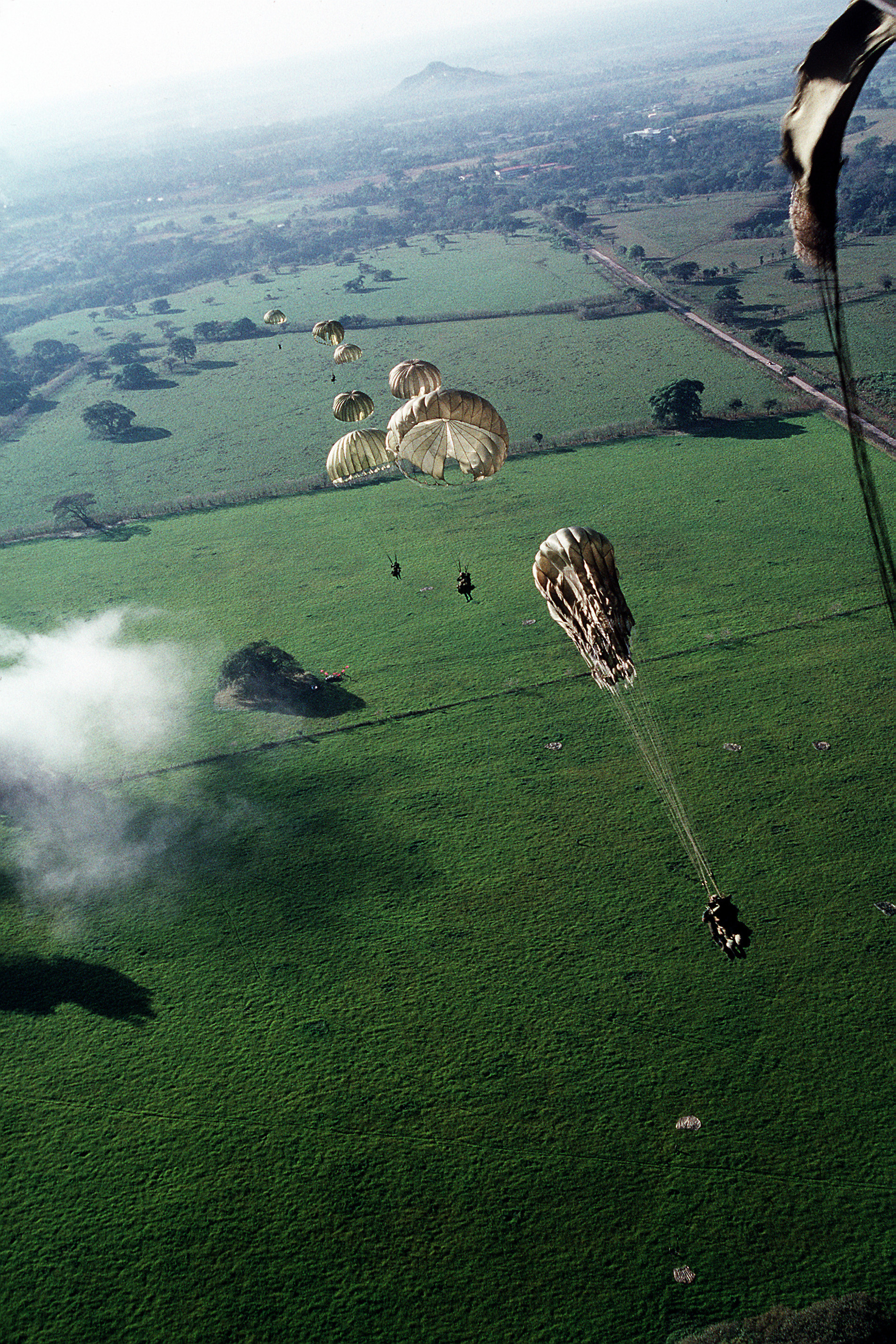 US Soldiers of 1st Battalion, 508th Infantry, parachute from a C-130E Hercules aircraft into a drop zone outside the city to conduct operations in support of Operation Just Cause.